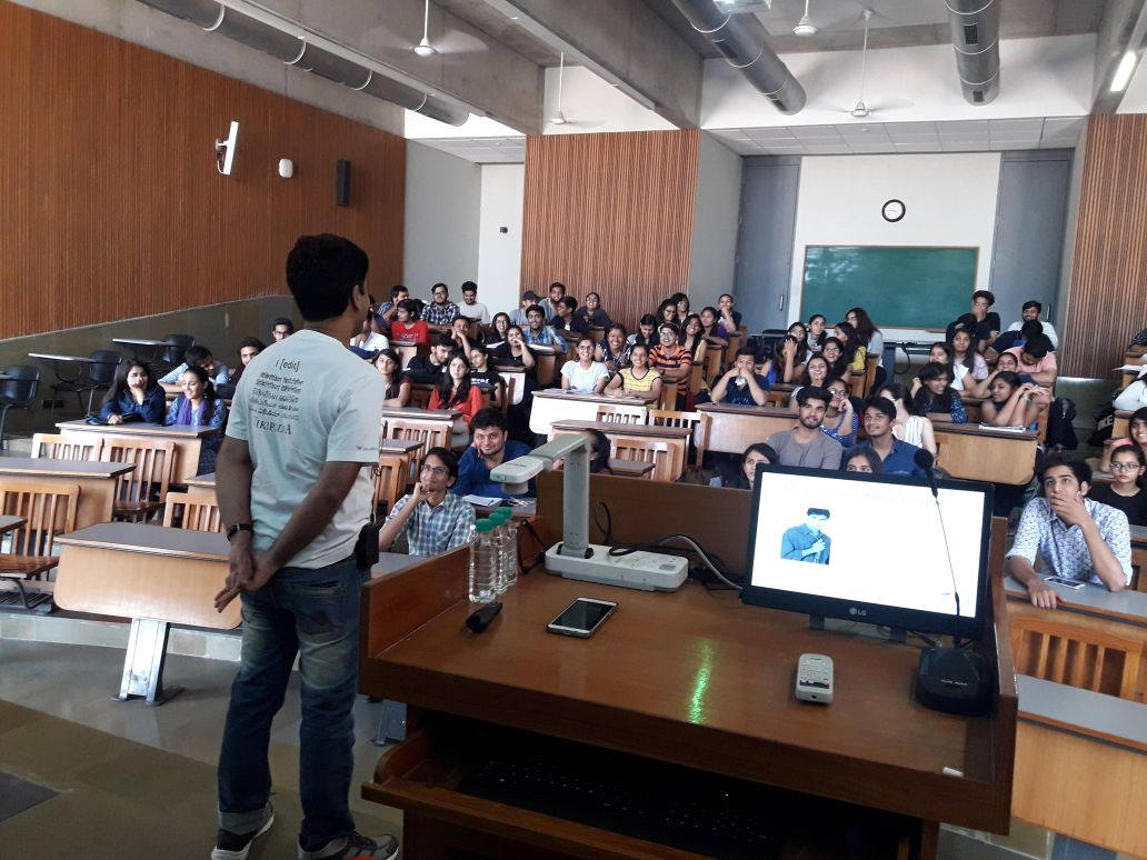 Gu-Wiki Outreach - Ahmedabad University - 07-04-2018 - Faculty